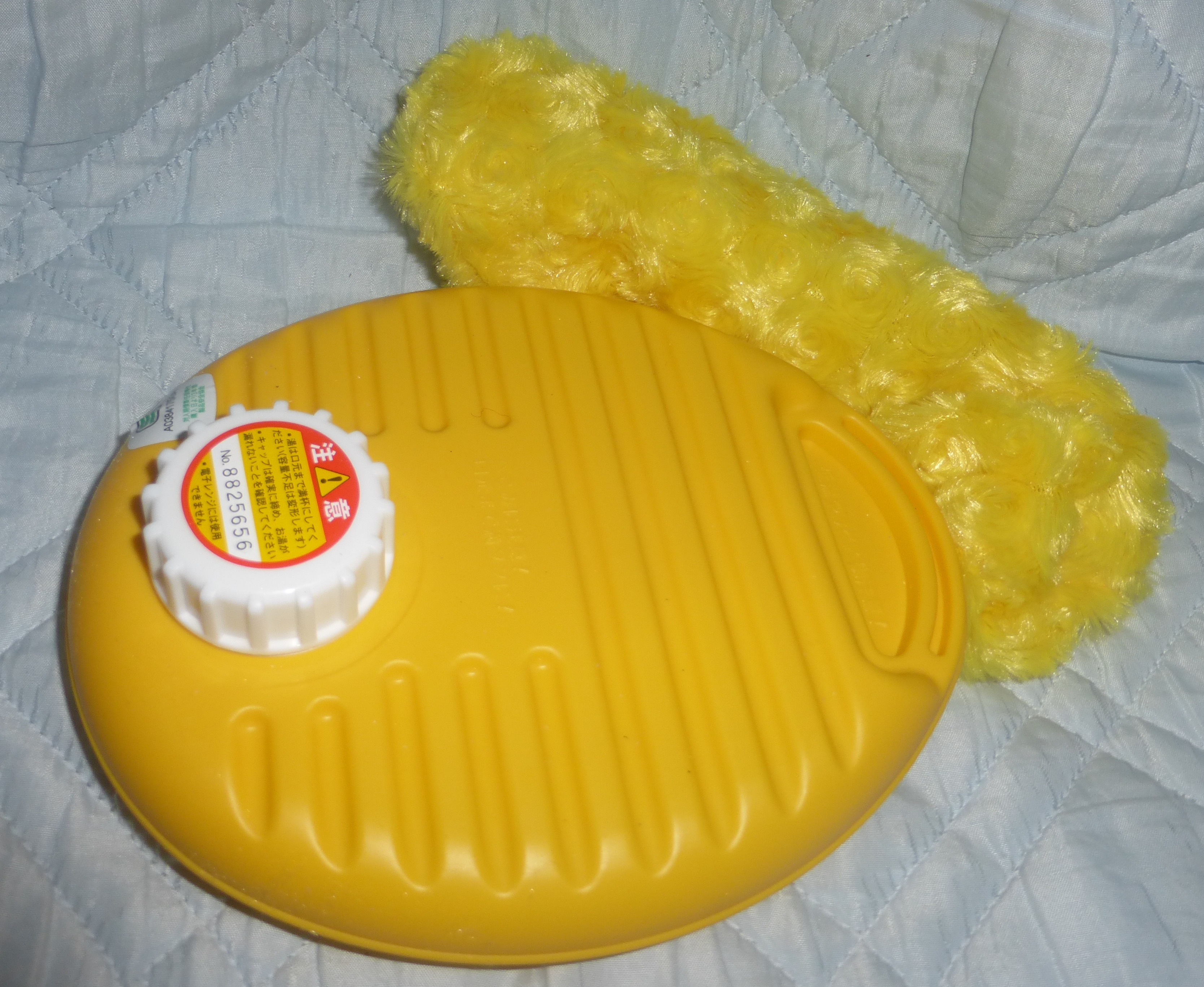 Japanese style Hot water bottle (Yutanpo, 湯たんぽ)